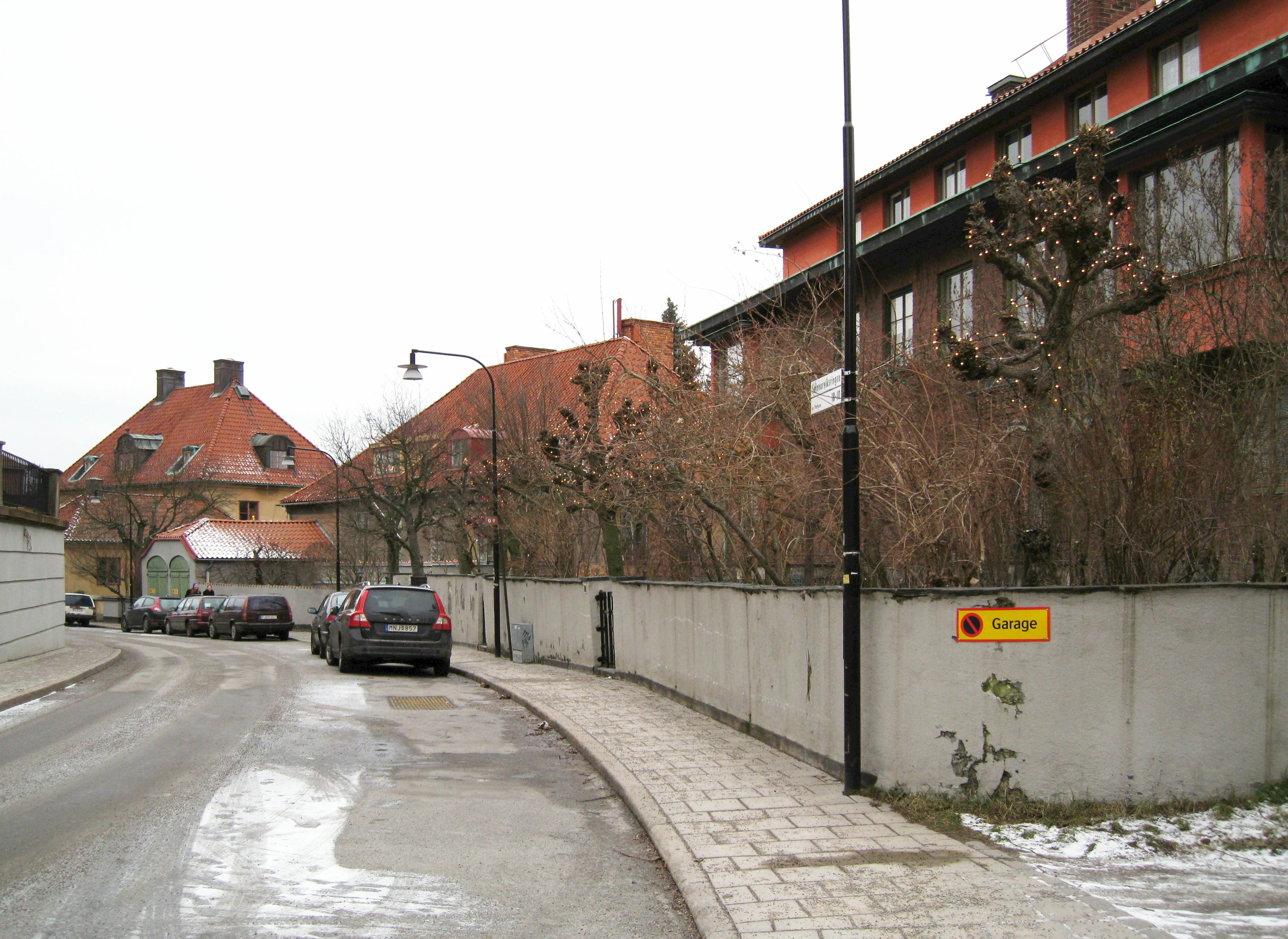 Skinnarviksringen in Stockholm, Sweden